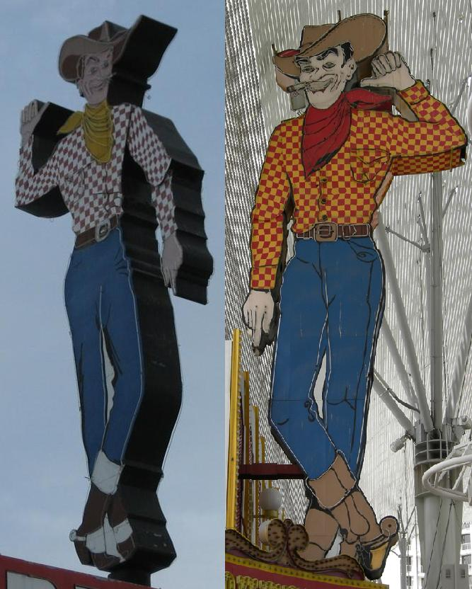 comparison between River Rick in Laughlin (left) and Vegas Vic in Las Vegas (right)